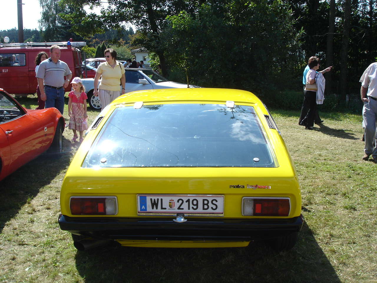 Matra-Simca Bagheera, model from 1973-1976